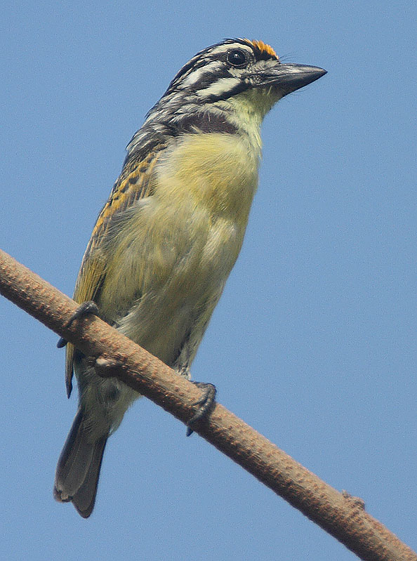 Image taken at Makasutu, The Gambia. This small savannah woodland barbet has a persistent monotonous "tink...tink...tink.." call which is one of the classical sounds of the West African bush.